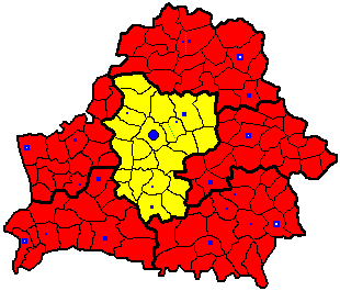 Map of Oblast Minsk in Belarus with district-level subdivisions